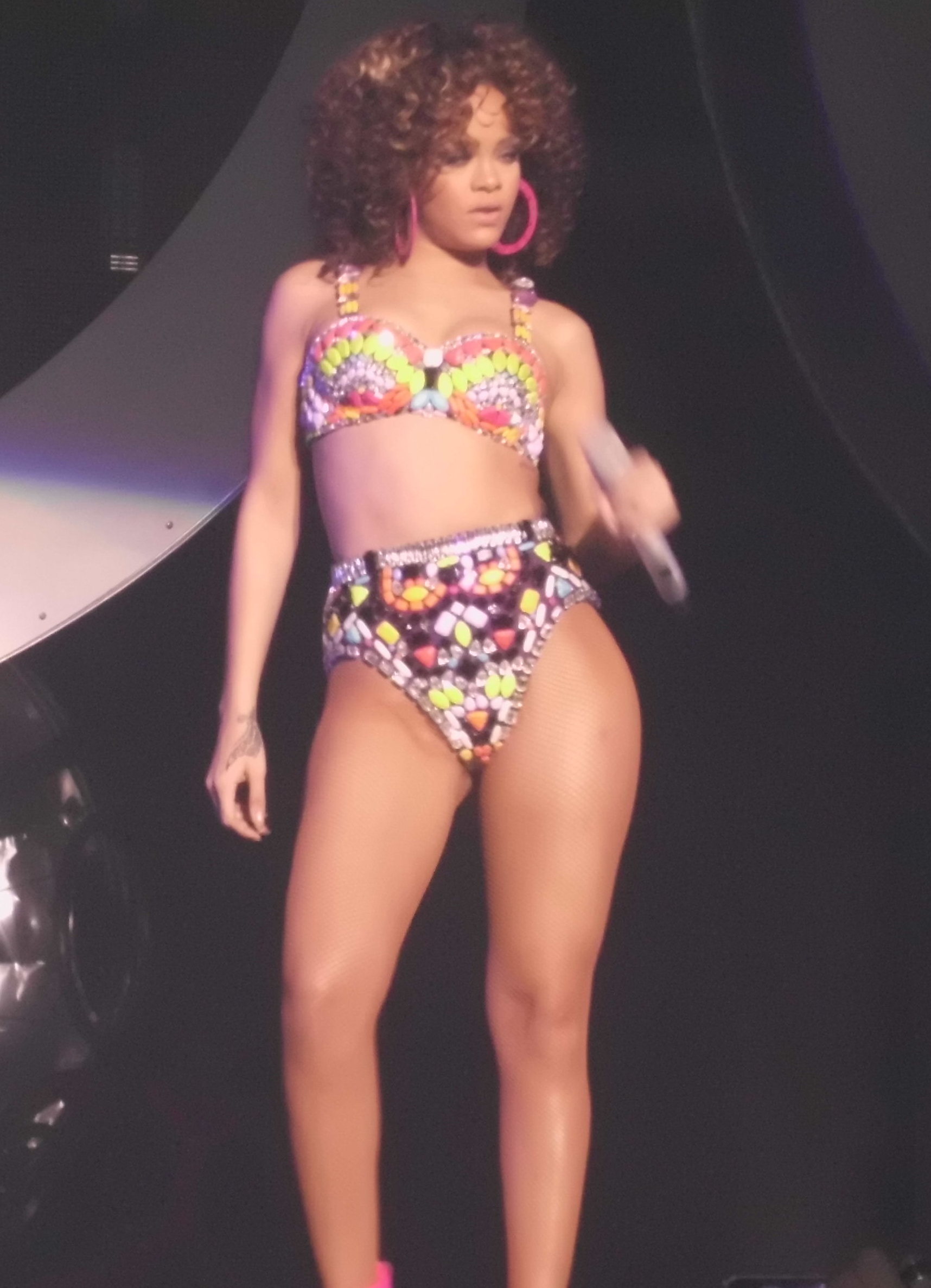 Rihanna sings Disturbia on her Loud Tour 2011.